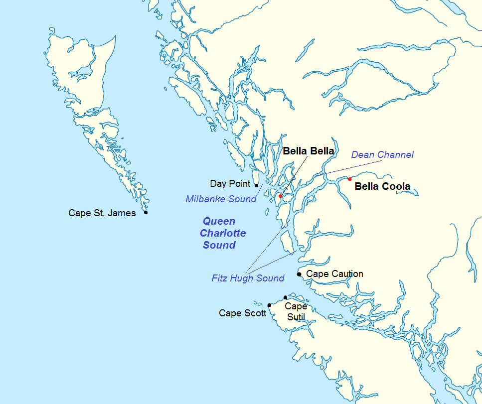 Queen Charlotte Sound map